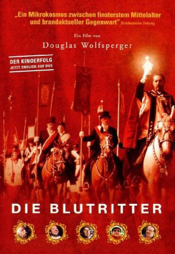 Blutritter